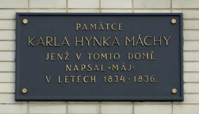 Plaque of Czech poet Karel Hynek Mácha on the place in Prague (Charles Square №551/34—plaque installed in 1867 and in 1937 re-installed on new/rebuilt house) where he lived from 1826 and where he wrote 1834–1836 his famous romantic poem Máj